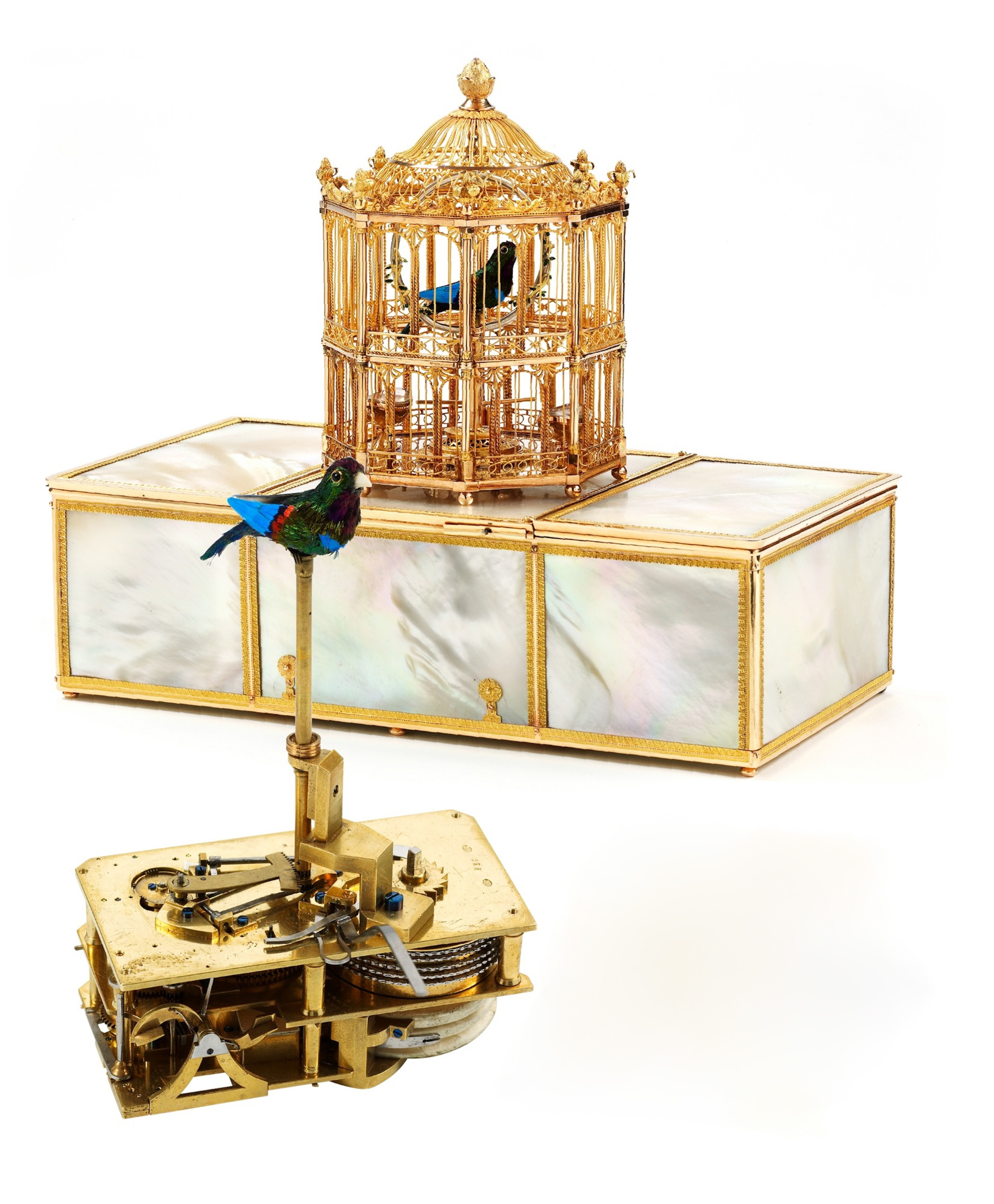 The empress josephine singing bird box by Les Frères Rochat, No. 116. Made circa 1810. A magnificent and exceptionally rare, gold and mother-of-pearl table jewel box, with singing bird and musical movements. Accompanied by a fitted plush-lined, tooled and gilt fitted case. Rectangular jewel box with a gold framework (master mark JI) chased with leaf decoration, enclosing mother of pearl panels at the sides and base, the center containing the movements with concealed winding hole for the bird in the base and for the music at the front with a gold shutter, at each side a silk-lined compartment with hinged mother of pearl cover, six gold bun feet (one lacking), surmounted by a very fine octagonal filigree gold birdcage with foliate and pinecone finials, opening door to the front, mirrored base, two feeding bowls, one glazed and containing seed. The singing bird movement: 76 x 40 x 33 mm., gilt brass, in two tiers, massive cylindrical pillars, fusee and chain, circular bellows, eight cams and a piston with sliding whistle for the song's modulation, the multicoloured feathered bird on a ring perch decorated with gold foliage, the bird with flapping wings, wagging tail, opening beak and rotating on its axis, long duration of singing, rack for rotating the bird on its axis, large fly governor. Musical Movement: 80 x 50 x 15 mm., bedplate with pinned brass cylinder, steel comb, going barrel and fly-controlled wheel train, playing two tunes released and changed by levers in the back of the case, metal protecting box housing the movement. Signatures: Bird movement: punched FR twice - within an oval, No.116. Punched French hallmarks. Maker’s mark: JI. Dim. 21 x 11 x 17.78 cm. The cage and mounts are made from gold and the musical and singing bird mechanisms hidden within the base. This object is also a jewellery box. By repute, this box was once owned by the Empress Josephine of France.